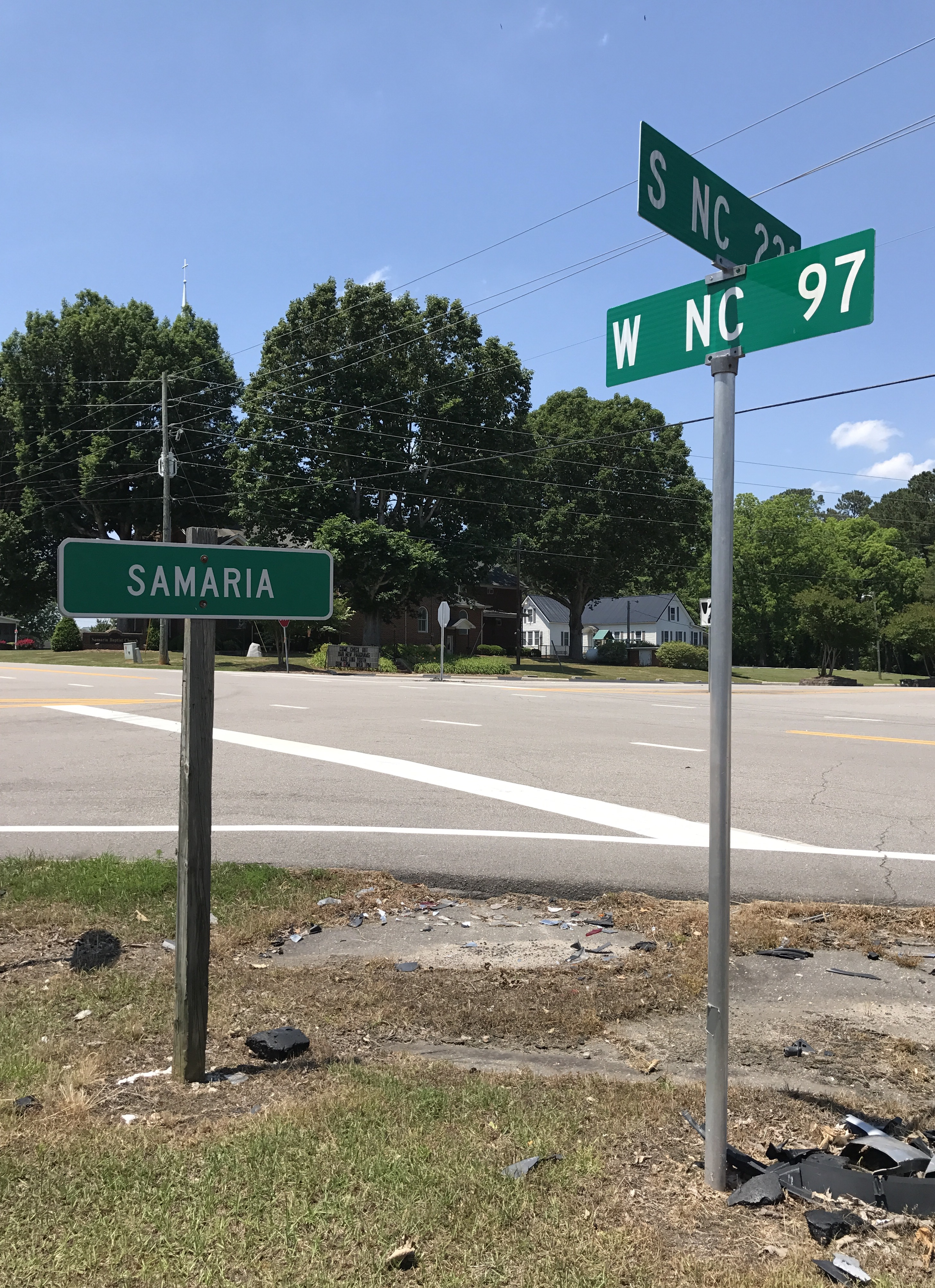 NC Highway 97 and NC Highway 231 junction in Samaria, Nash County